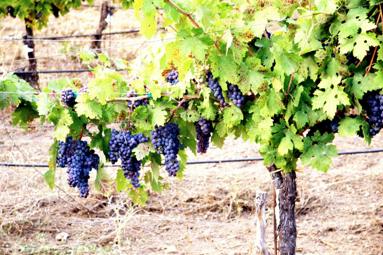 Ripe grapes in early September in the Redwood Valley wine region of California's Mendocino County.